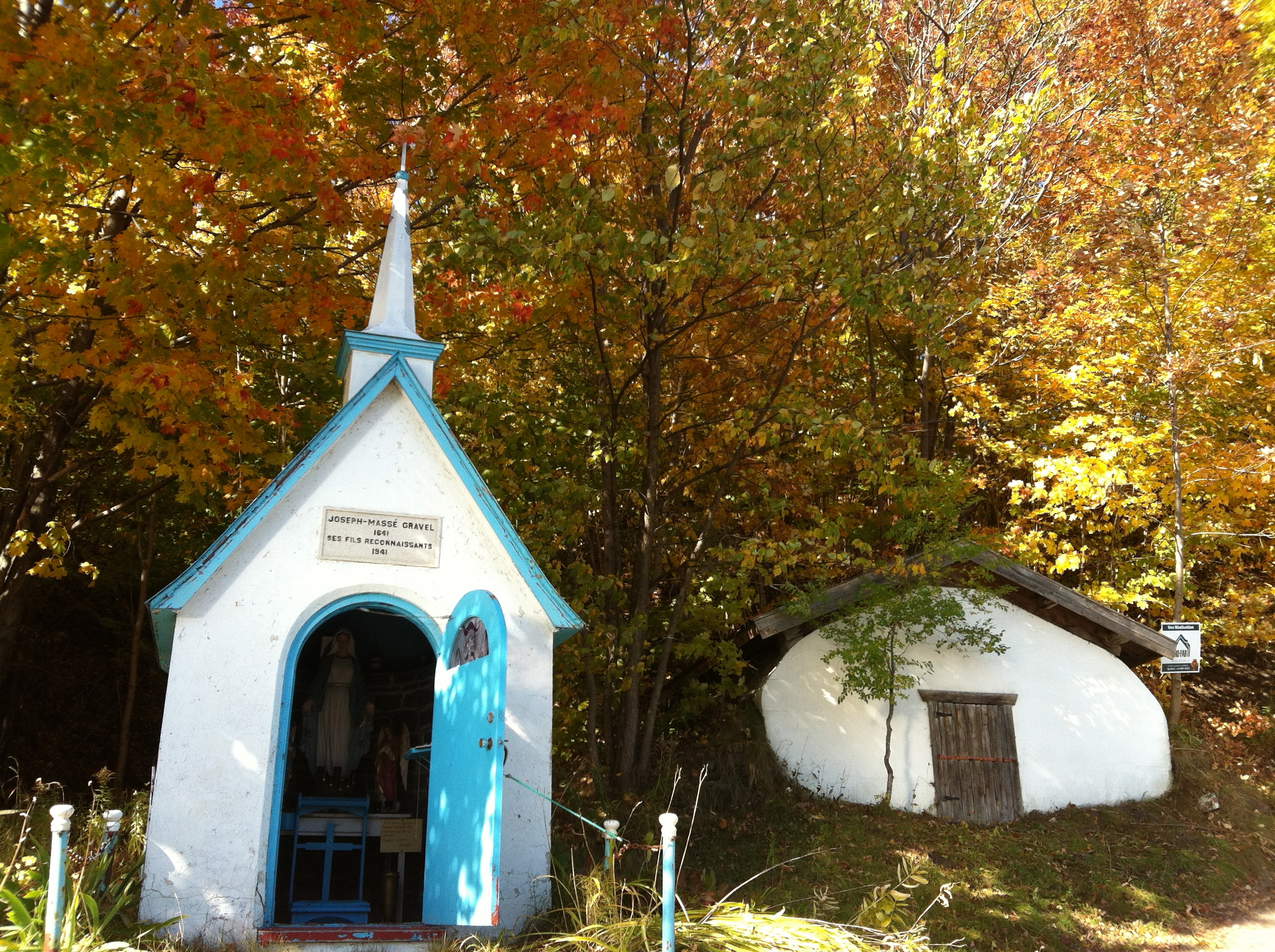 @EugeniaSoaresWD